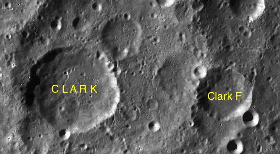 Part of the chart LAC-117 used for the presentation